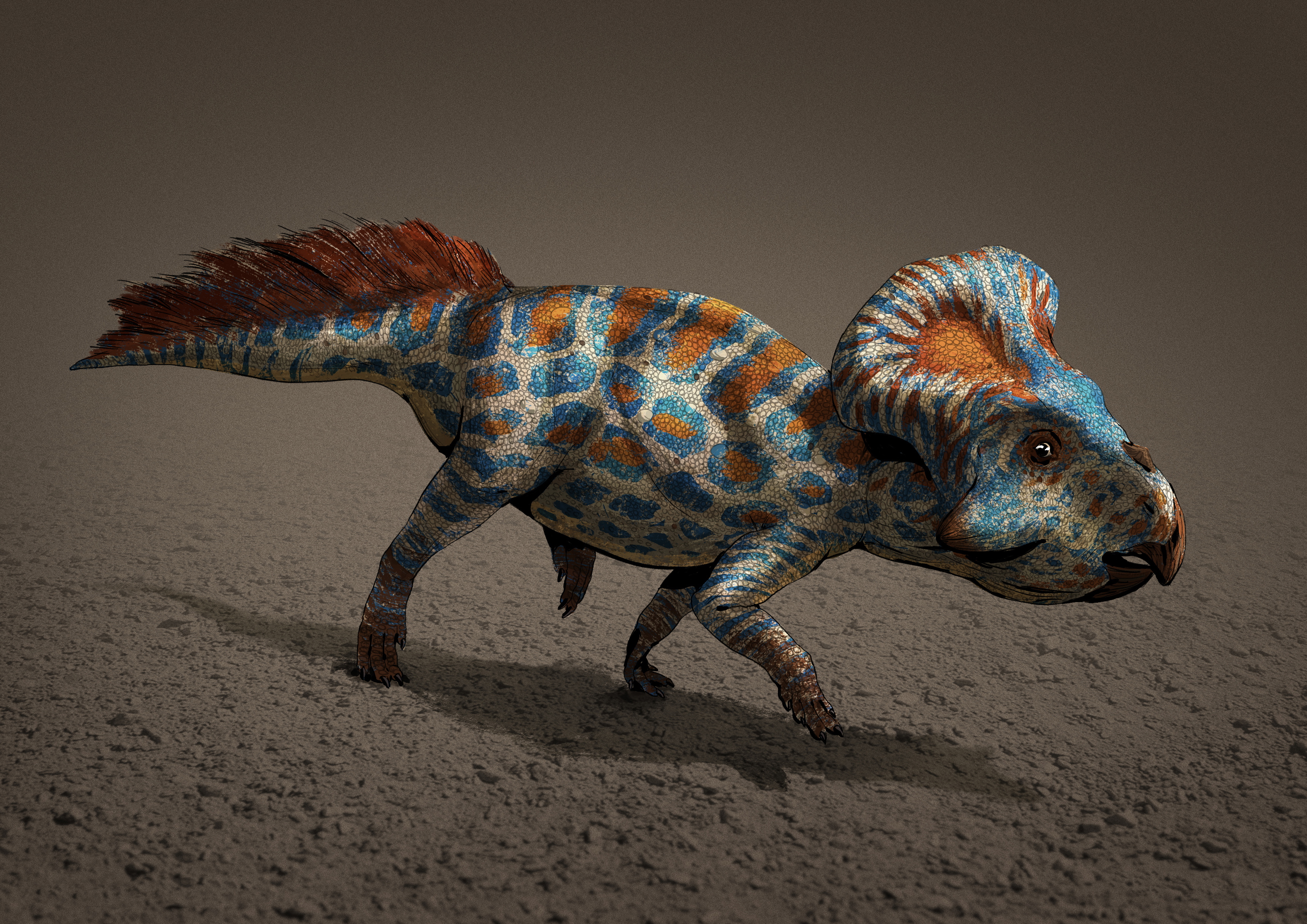 Protoceratops andrewsi